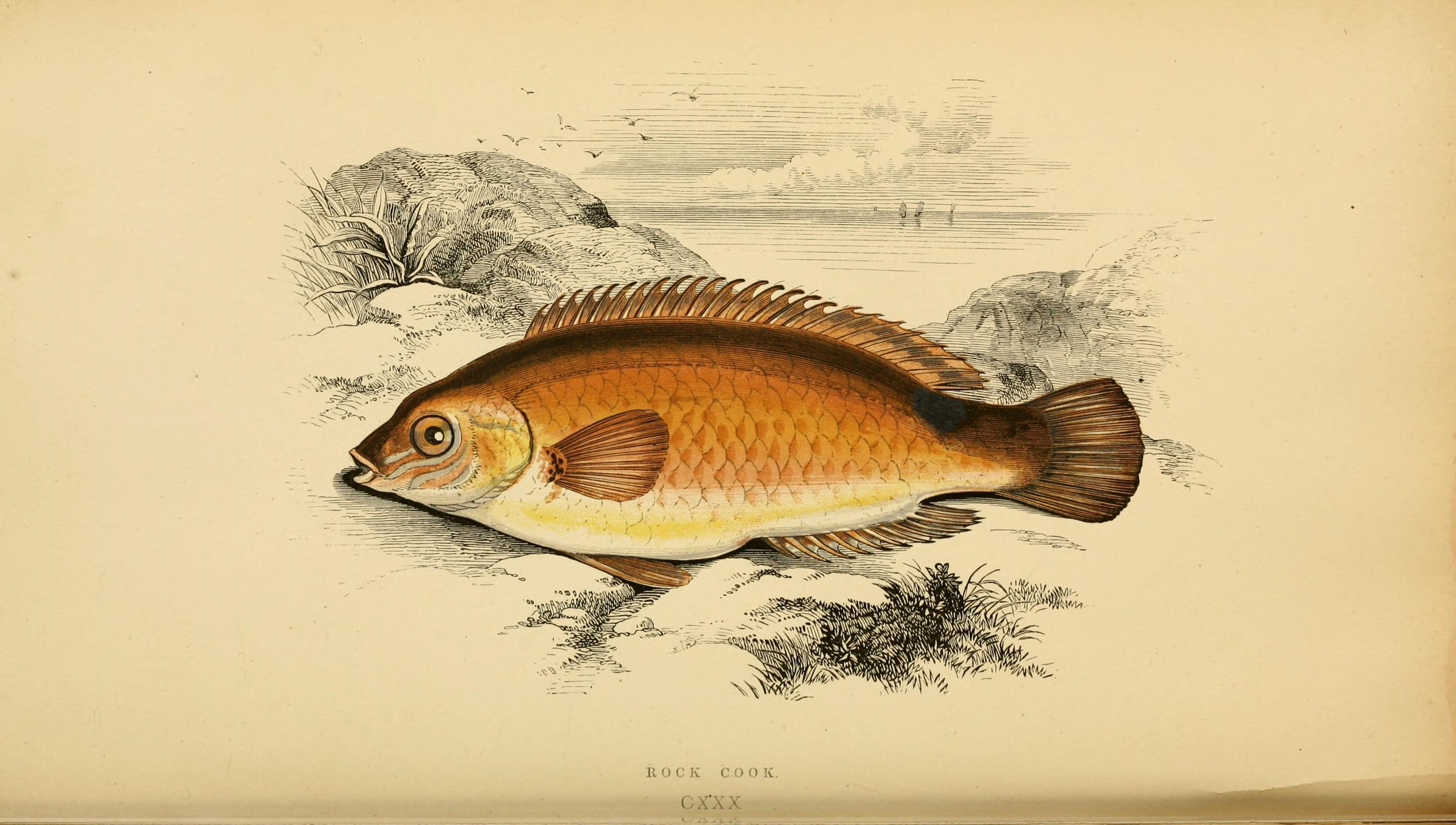 Rock cook Centrolabrus exoletus A history of the fishes of the British Islands. By Jonathan Couch ...